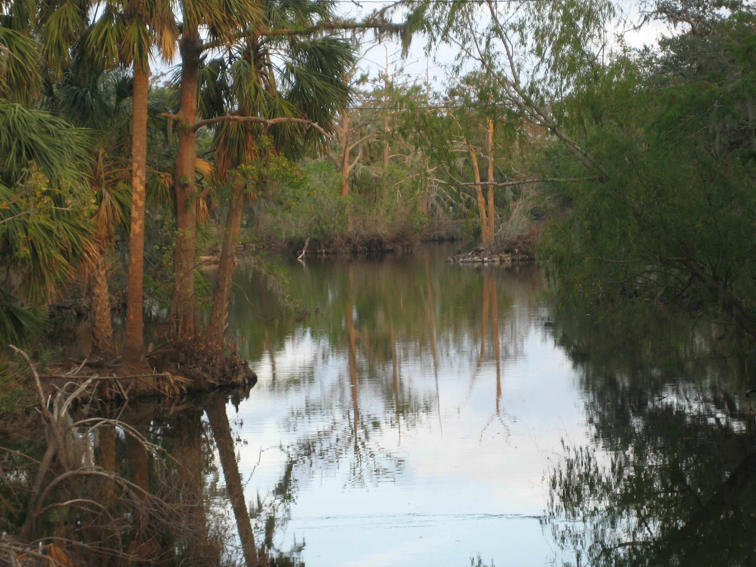 Bayou Metairie in City Park, New Orleans